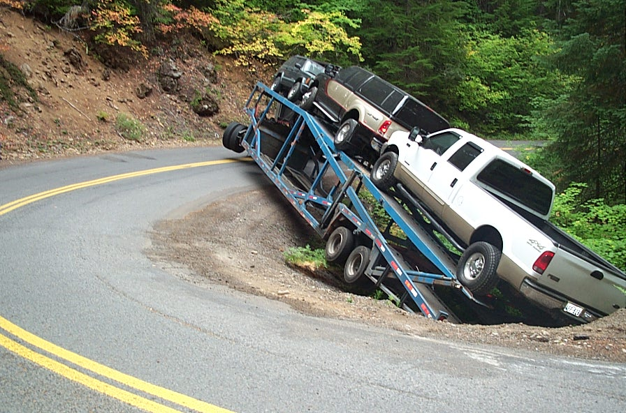 McKenzie Pass Highway (Oregon 242) is a scenic route through the Oregon Cascades, however due to its narrow, windy curves, it is not a truck route. Unfortunately, this driver had to learn the hard way.